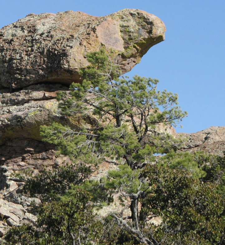 Pinus leiophylla subsp. chihuahuana, Bird Rock, Chiricahua National Monument, Arizona.